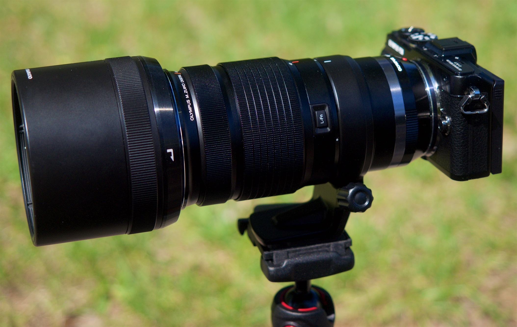 Olympus 40-150mm ƒ2.8 PRO lens, showing tripod mount, attached to Olympus EPL-7 camera body.